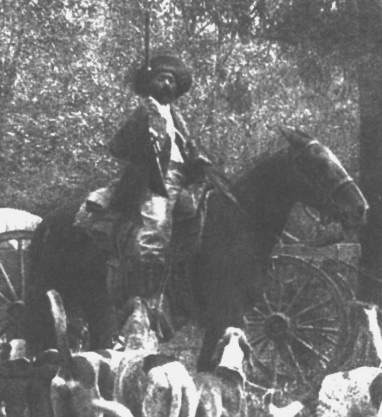 A 1907 photo of Holt Collier from Scribner's Magazine (January 1908).